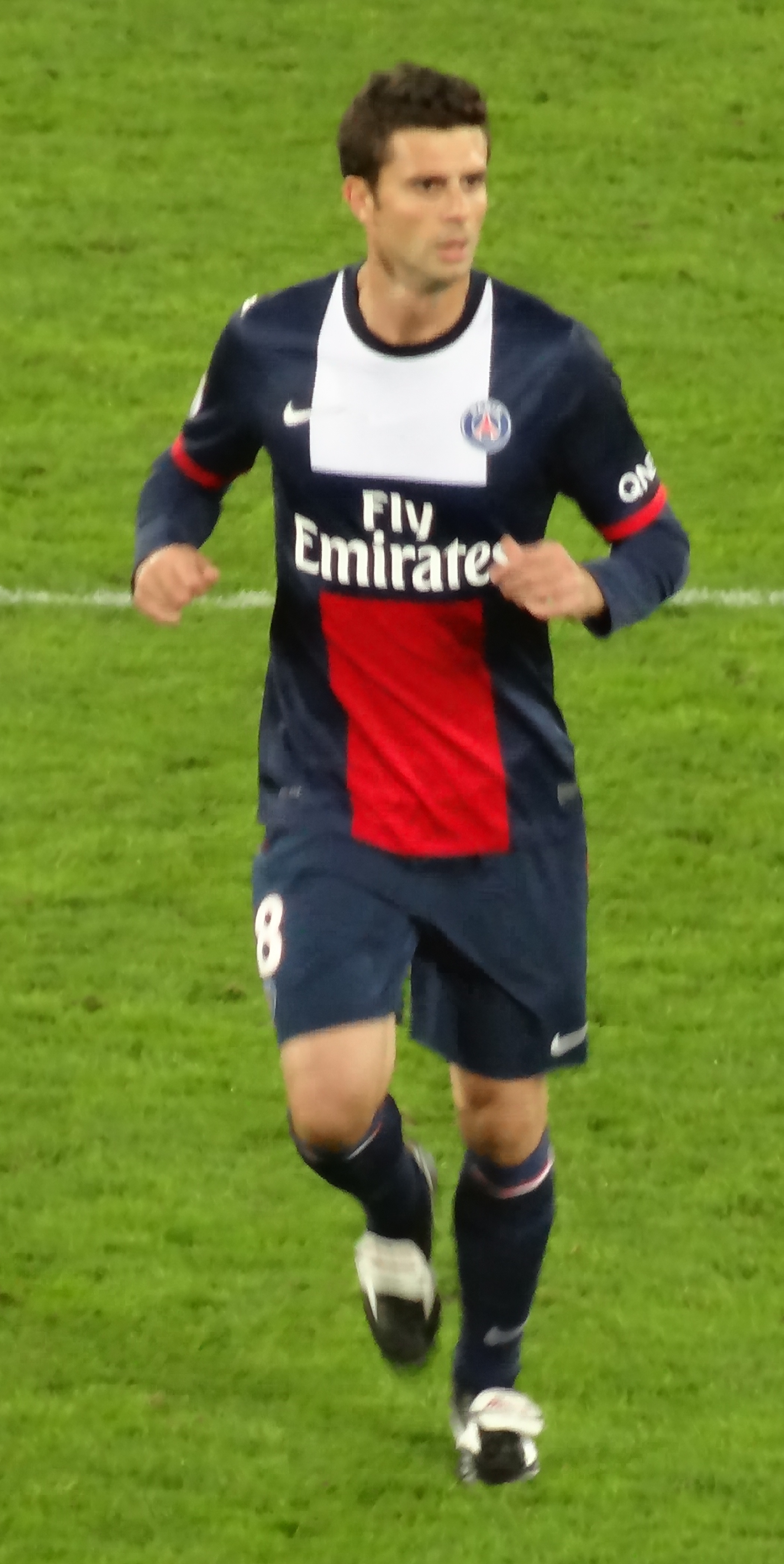 Thiago Motta, PSG